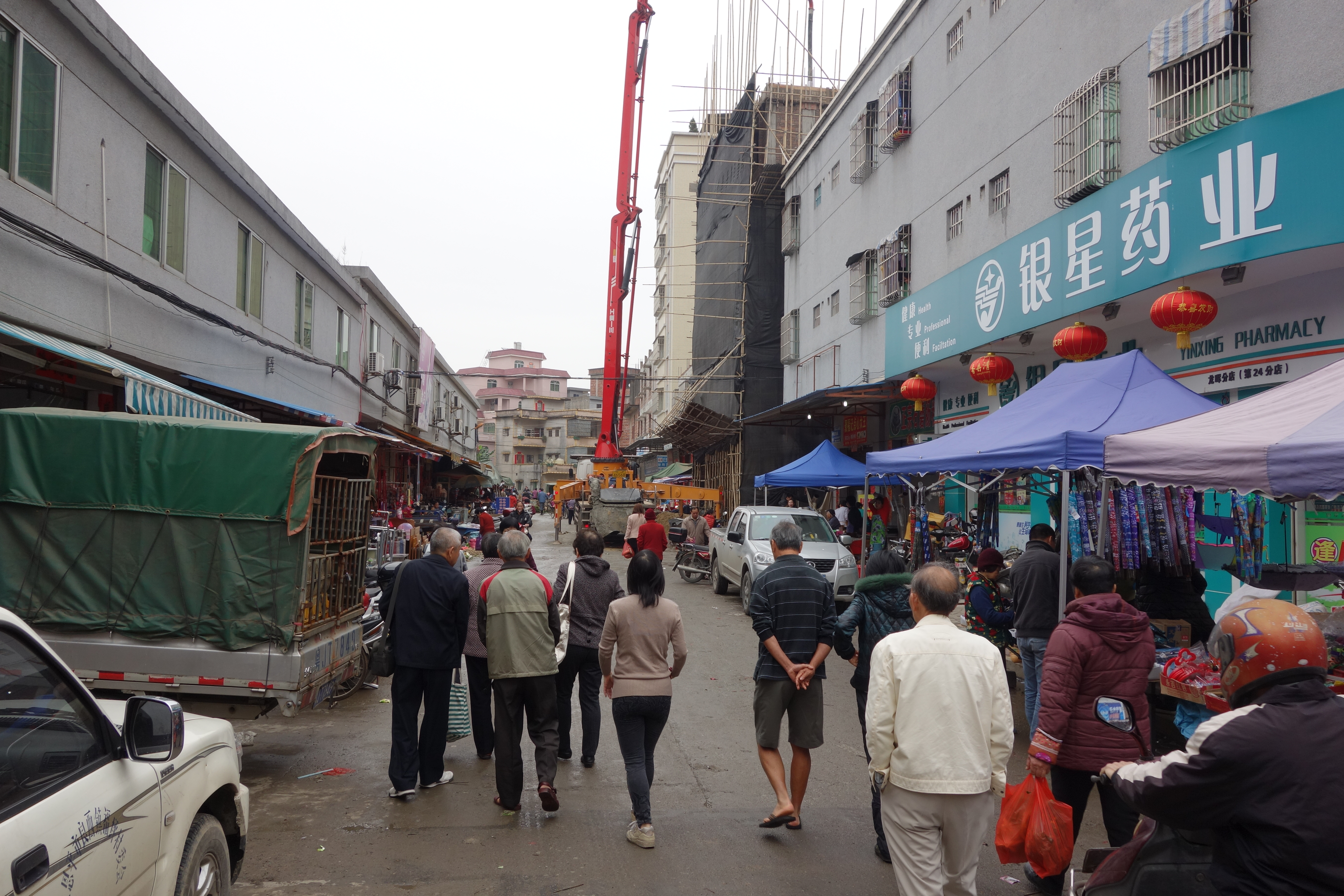 The gang wandering around after breakfast